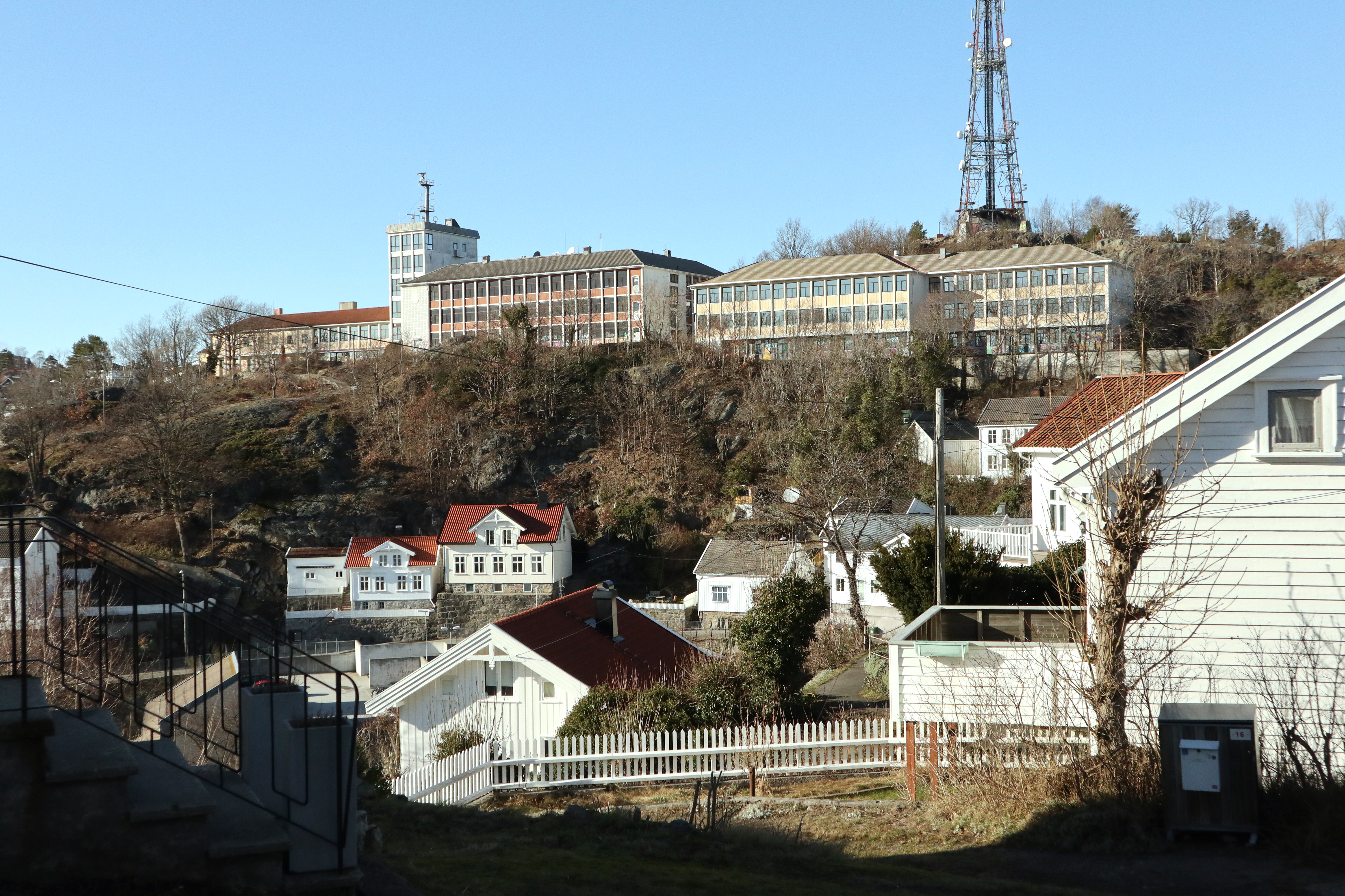 Maritime School in Arendal, opened 1954, pulled Down 2019.